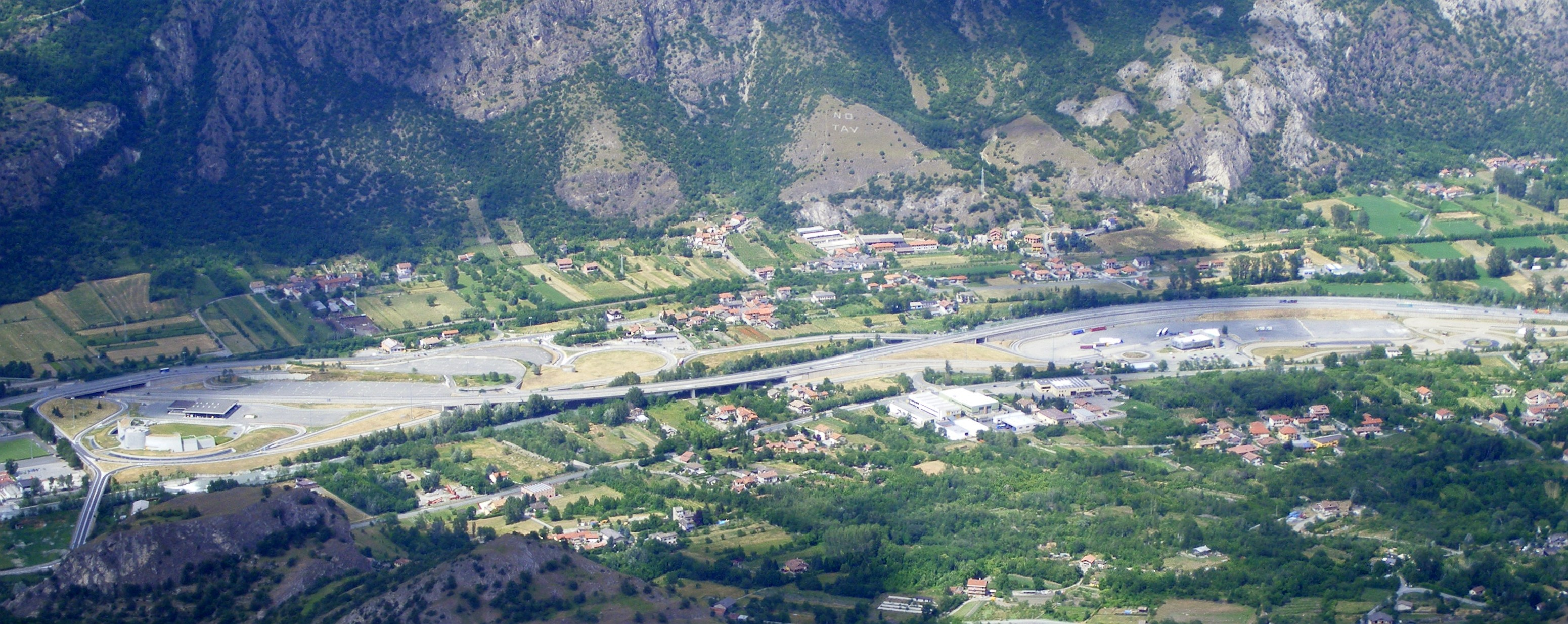 Susa's freight village and SITAF (Società Italiana per il Traforo Autostradale del Frejus SpA) headquarters as seen from Monte Fassolino (TO, Italy)